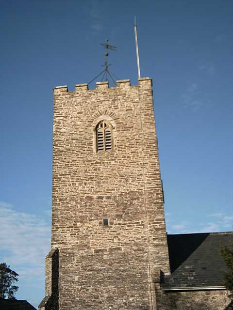 St Michael's Church, Bampton.